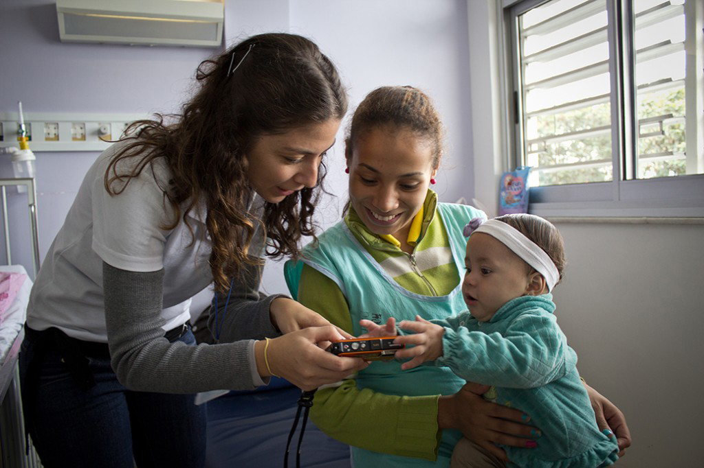 making of activities